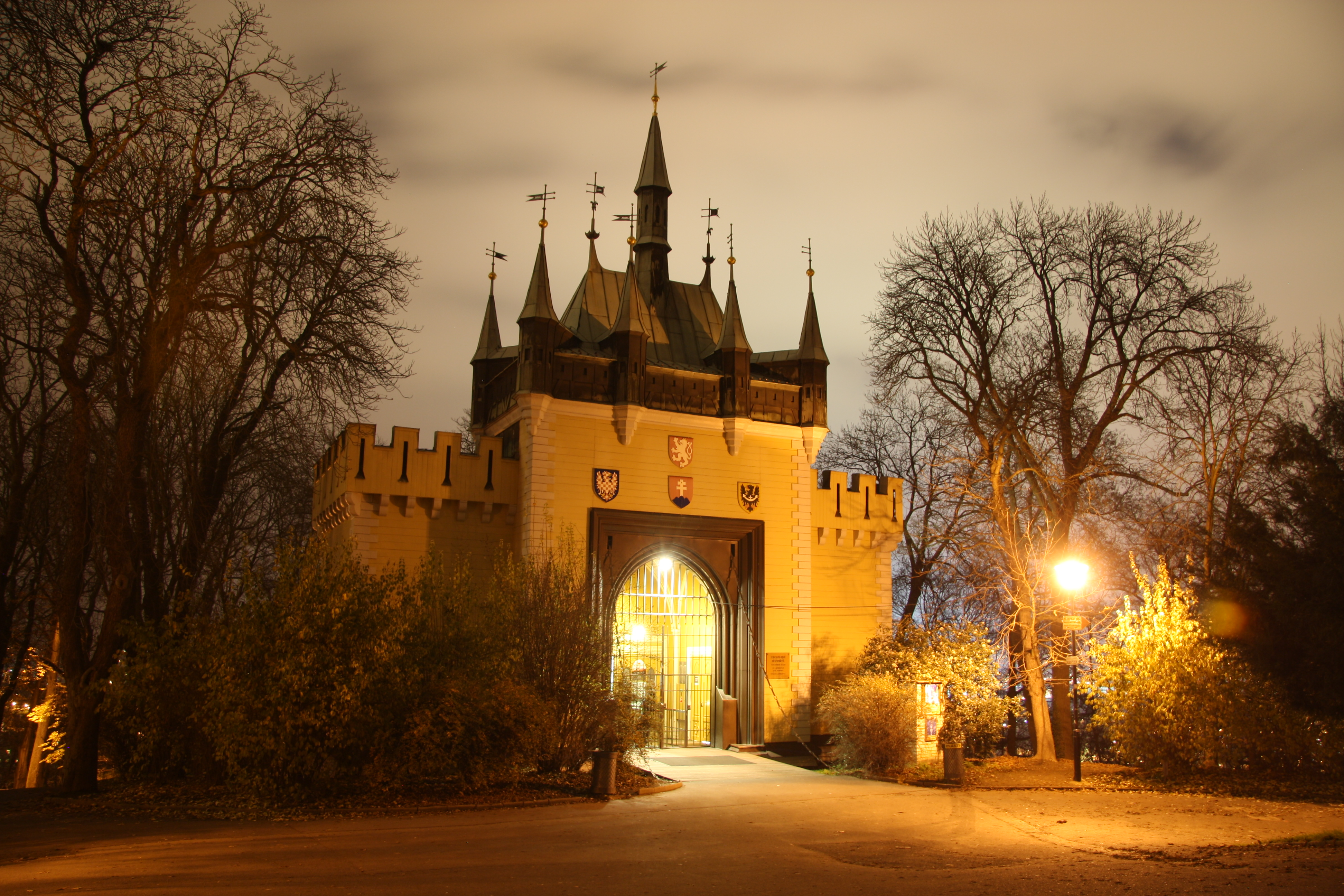 Petřín maze at evening.